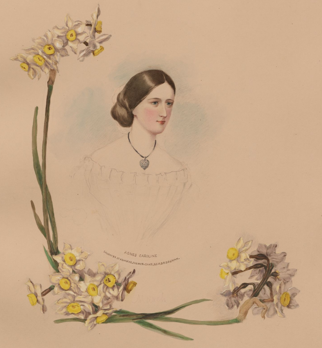 Unfinished portraits of Shropshire Ladies by Lady Mary Leighton. Agnes Caroline Bridgemen